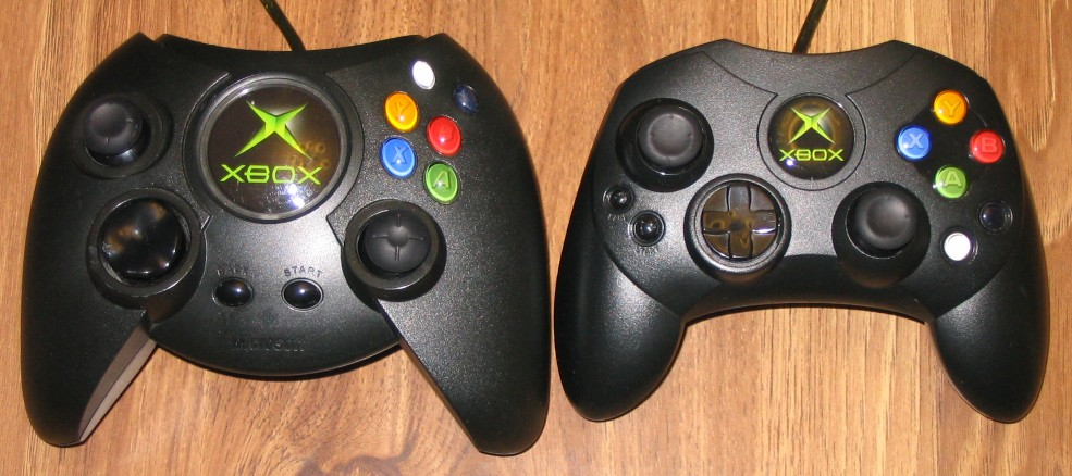 Xbox original Controller "The Duke" and newer Controller S. Photographed by Swaaye.